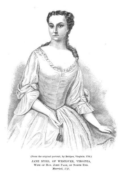 "Jane Byrd of Westover, Virginia, wife of Hon. John Page, of North End, Married 1746. (From the original portrait by Charles Bridges, Virginia, 1750)." Hon. John Page and Jane Byrd Page had 15 children, of whom 11 survived to adulthood. Hon. John Page settled at North End plantation with his wife Jane Byrd, thus beginning a line of the Page family known as the Pages of North End, or 'the black Pages," whereas the Pages of Rosewell, where Hon. John Page was born, were known as 'the white Pages.' Robert Page, a brother of Mann Page and Hon. John Page, became the progenitor of the third branch of the family, known as 'the Broadneck Pages.' The house at North End plantation was destroyed by fire during the American Revolutionary War in 1776, and no gravestones survive for Hon. John Page and his wife Jane (Byrd) Page. Hon. John Page, born at Rosewell Plantation, was educated as a lawyer and served on the colonial council of Virginia, in place of his elder brother Mann Page. He was the second son of Hon. Mann Page of Rosewell Plantation and his wife Judith Carter. John Page married, first, Jane Byrd, daughter of Col. William Byrd II of Westover, and second, Maria Taylor, eldest daughter and co-heiress of Thomas Taylor, of Kensington, England. John Page died in 1780 and was buried at North End.